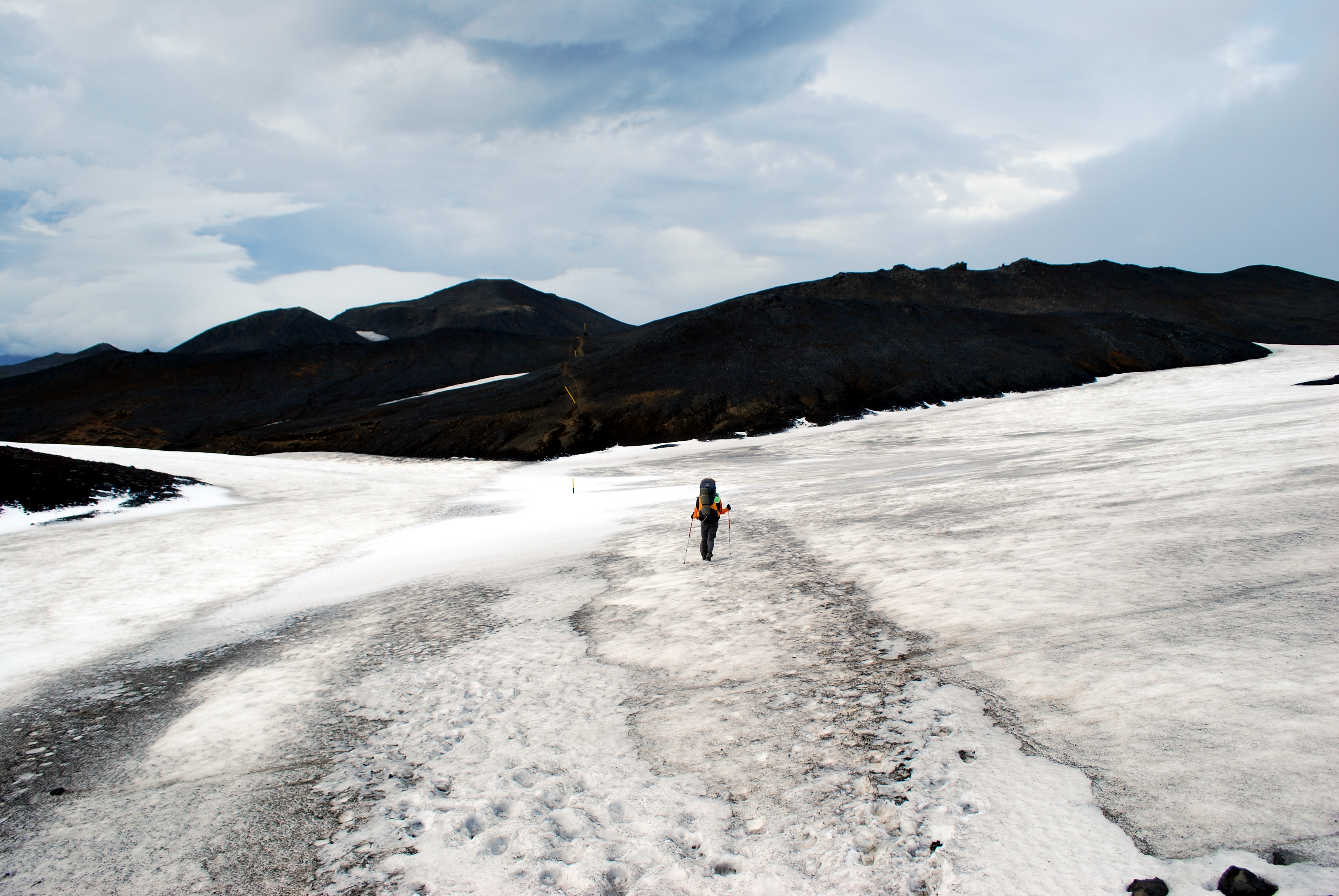 Surroundings of Fimmvörðuháls area, Iceland